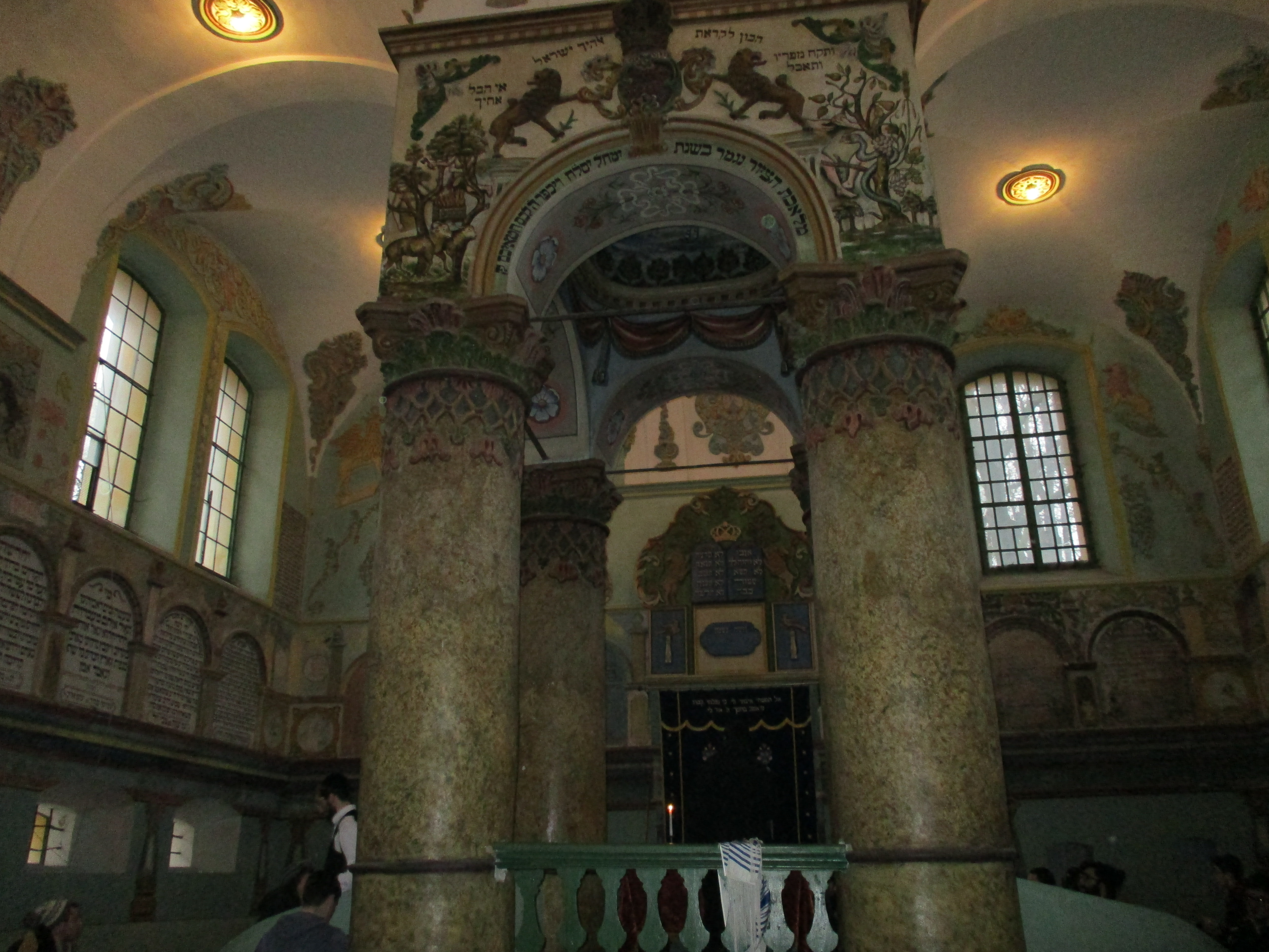 Synagogue in Łańcut